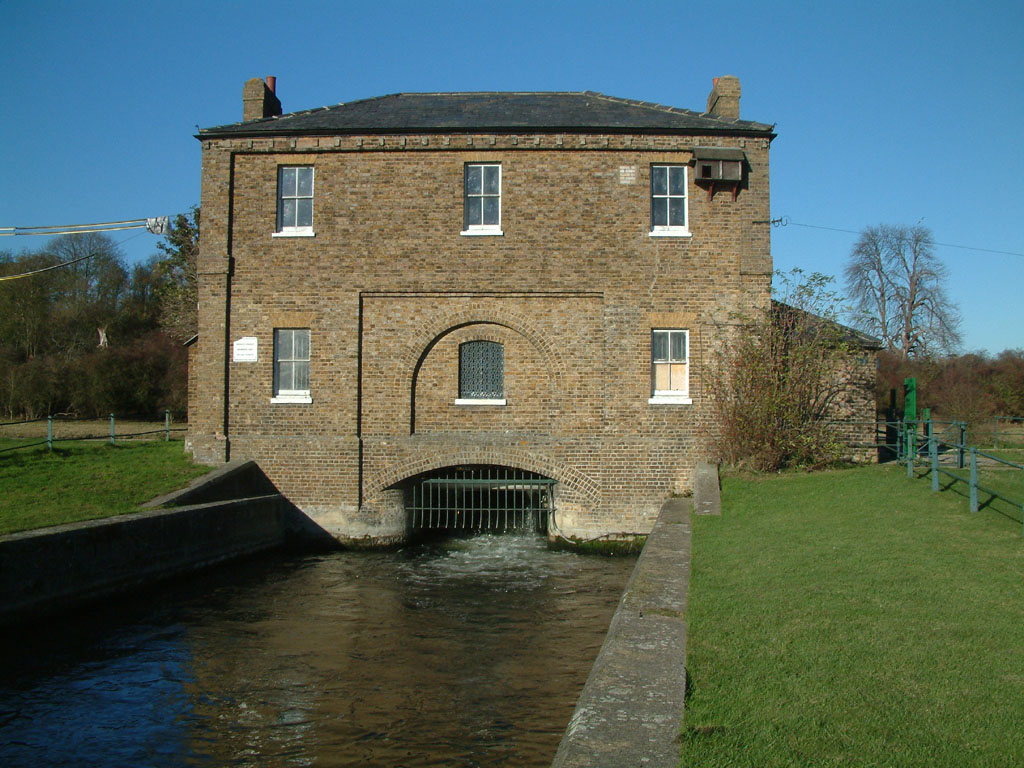 This brick building known as New Gauge is the start of the New River with water pouring from the River Lea into the New River. Extraction of this water caused hostility with boatmen and mill-owners, who both claimed there was insufficient water in the Lea as a result. Photograph by Stephen Dawson, 13 November 2004